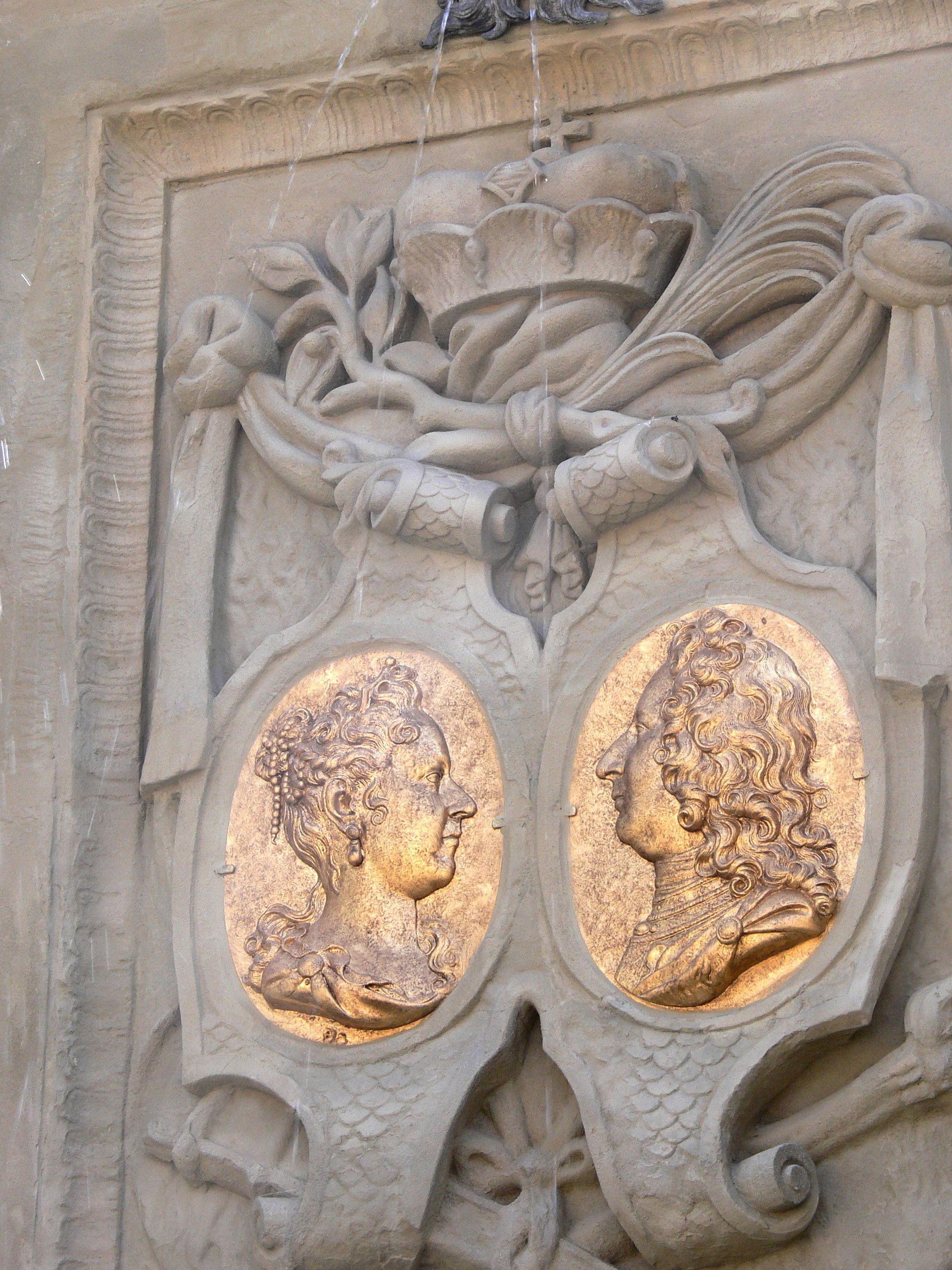 Schwabach. "Schöner Brunnen" ( Beautiful fountain ) at the marketplace. Portraits of Wilhelm Friedrich, Marquess of Brandenburg-Ansbach, and his wife.